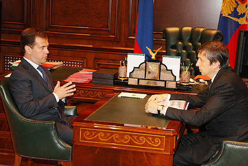 GORKI, MOSCOW REGION. With Director of the Federal Service for Financial Markets Vladimir Milovidov.